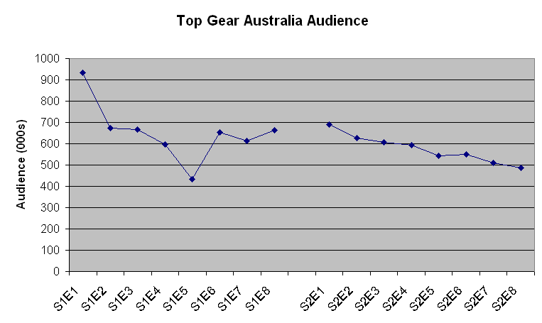 Viewing figures for Top Gear in Australia on SBS on monday nights All data extracted from